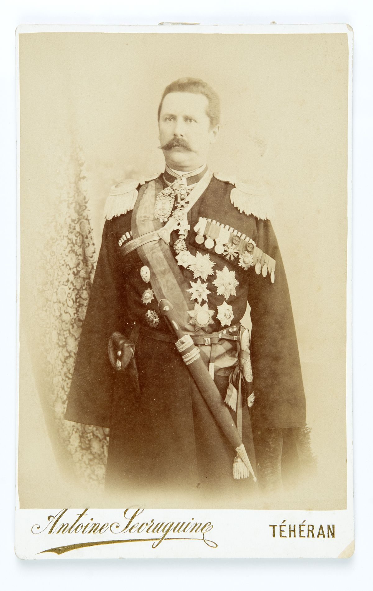 Vladimir Andreevich Kossogovsky (1857-1918) - Lieutenant-General, commander of the Persian Cossack Brigade, Imperial Russian Army